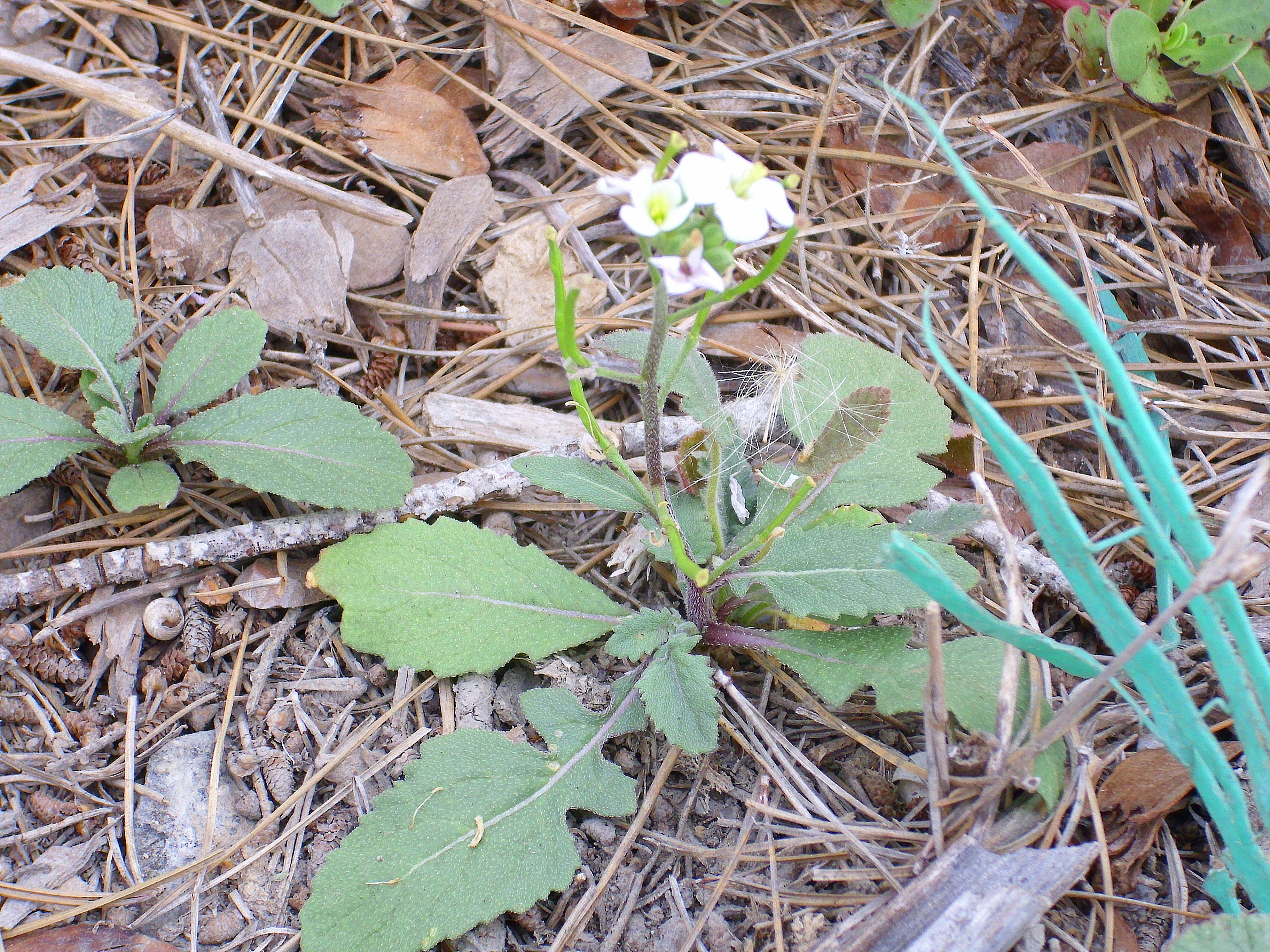 Diplotaxis erucoides habit, La Mata, Torrevieja, Alicante, Spain.